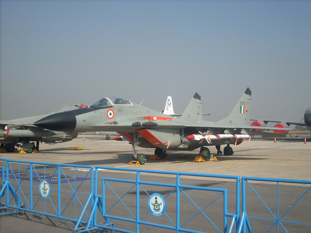 IAF MiG-29 at Aero India 2009.